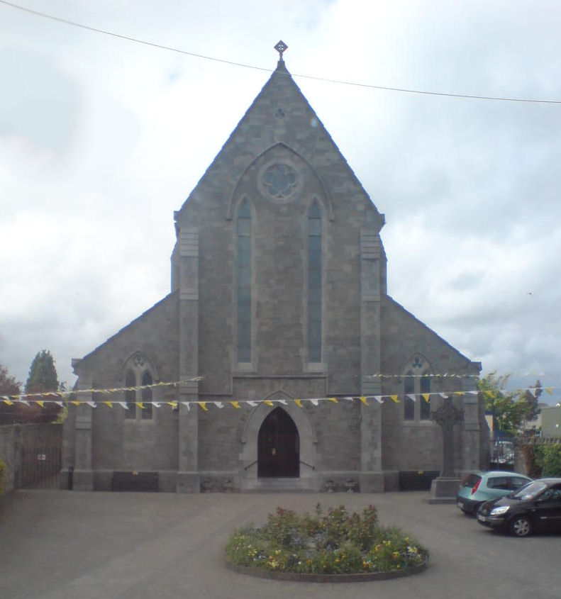 Celbridge Catholic Church on the main street.